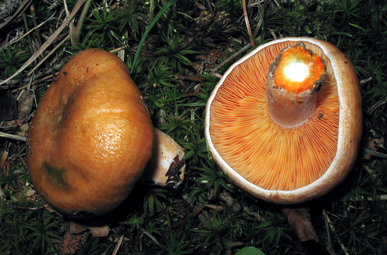 Two young fruiting bodies of L. deterrimus.